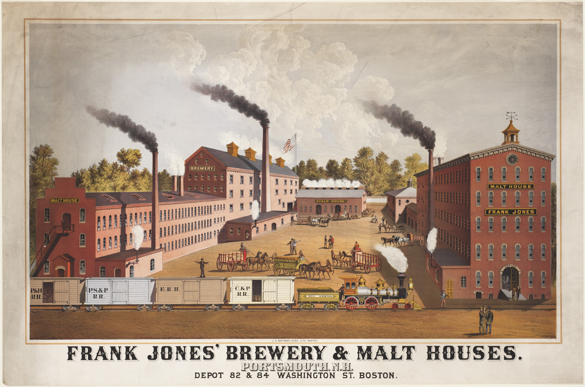 Frank Jones' brewery & malt houses, Portsmouth, N.H.: File name: 07_06_000018 Title: Frank Jones' brewery & malt houses, Portsmouth, N.H. Date issued: 1880 (approximate) Physical description: 1 print (poster) : chromolithograph Description: Poster for Frank Jones Brewery. Brick buildings left and right, with beer wagons and pedestrians, train on tracks in foreground. "Depot 82 & 84 Washington St. Boston" Genre: Advertisements; Posters; Chromolithographs Subjects: Beer; Brewing industry Notes: J.H. Bufford's Sons Lith., Boston Location: Boston Public Library, Print Department Rights: No known restrictions Camera: Sinar AG Sinarback 54 FW, Sinar m License on Flickr: CC-BY-2.0 Flickr tags: bpl, boston public library, public domain, beer, brewery, poster, Boston_Brewery_Posters, dc:identifier=07_06_000018